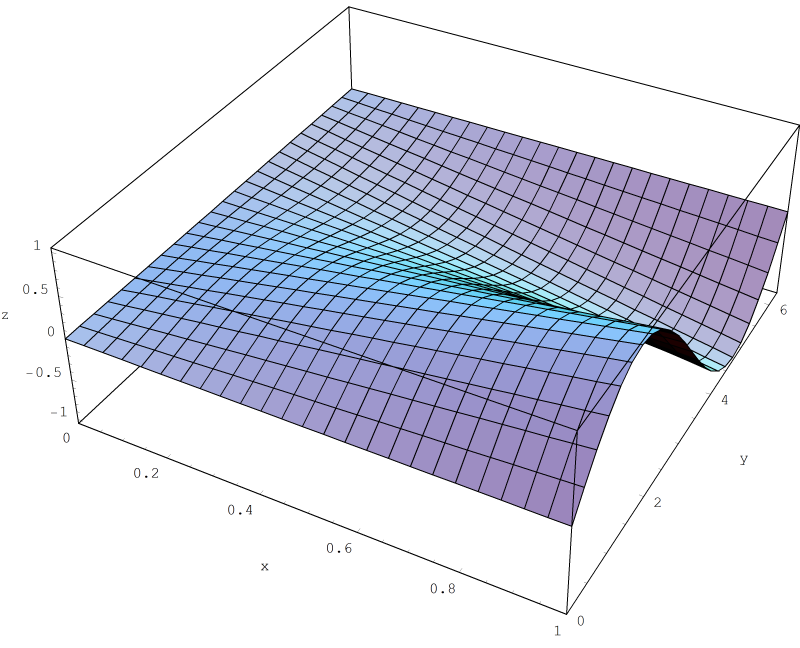 Plot of x sin(y)